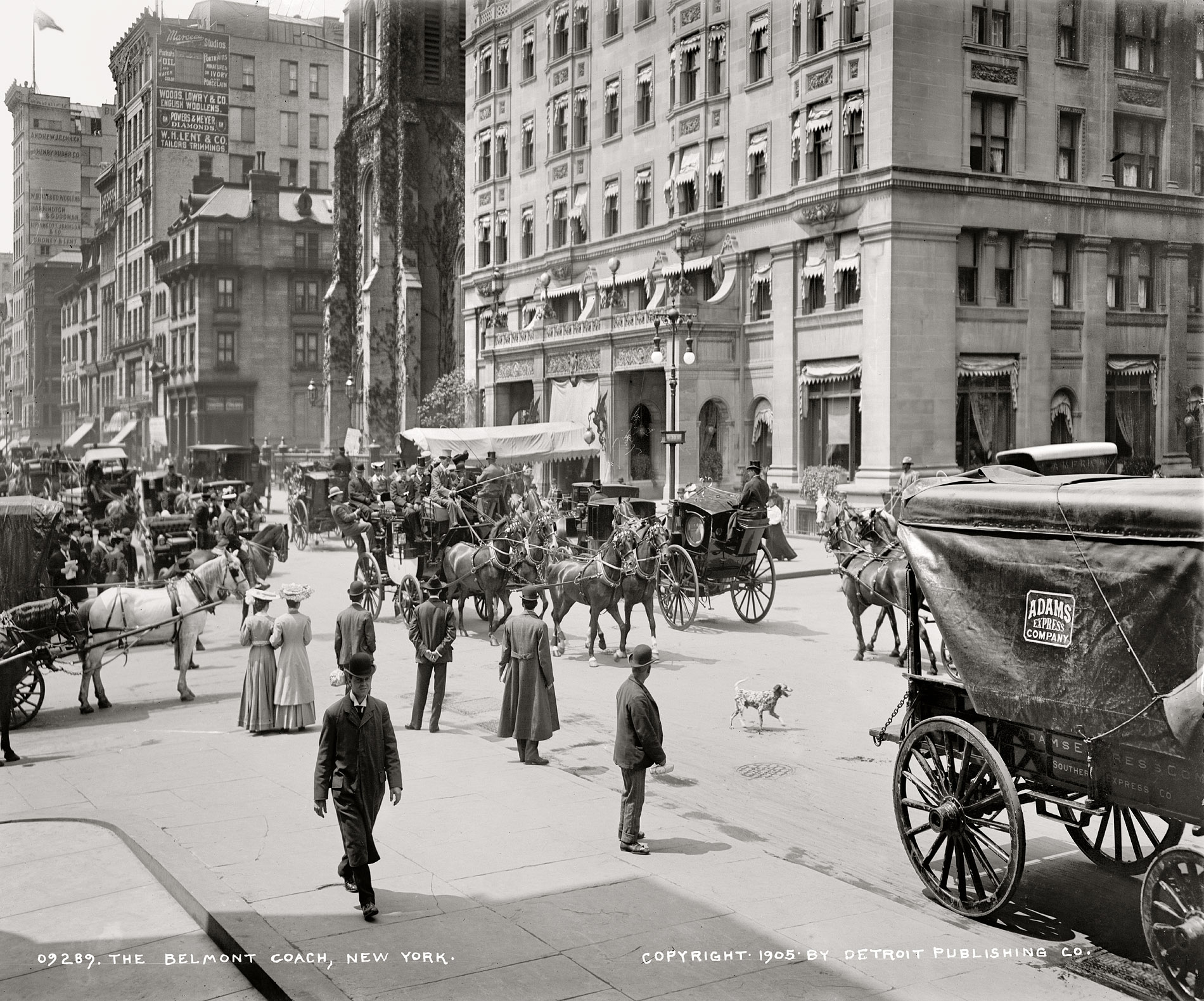 Fifth Avenue, New York 1905